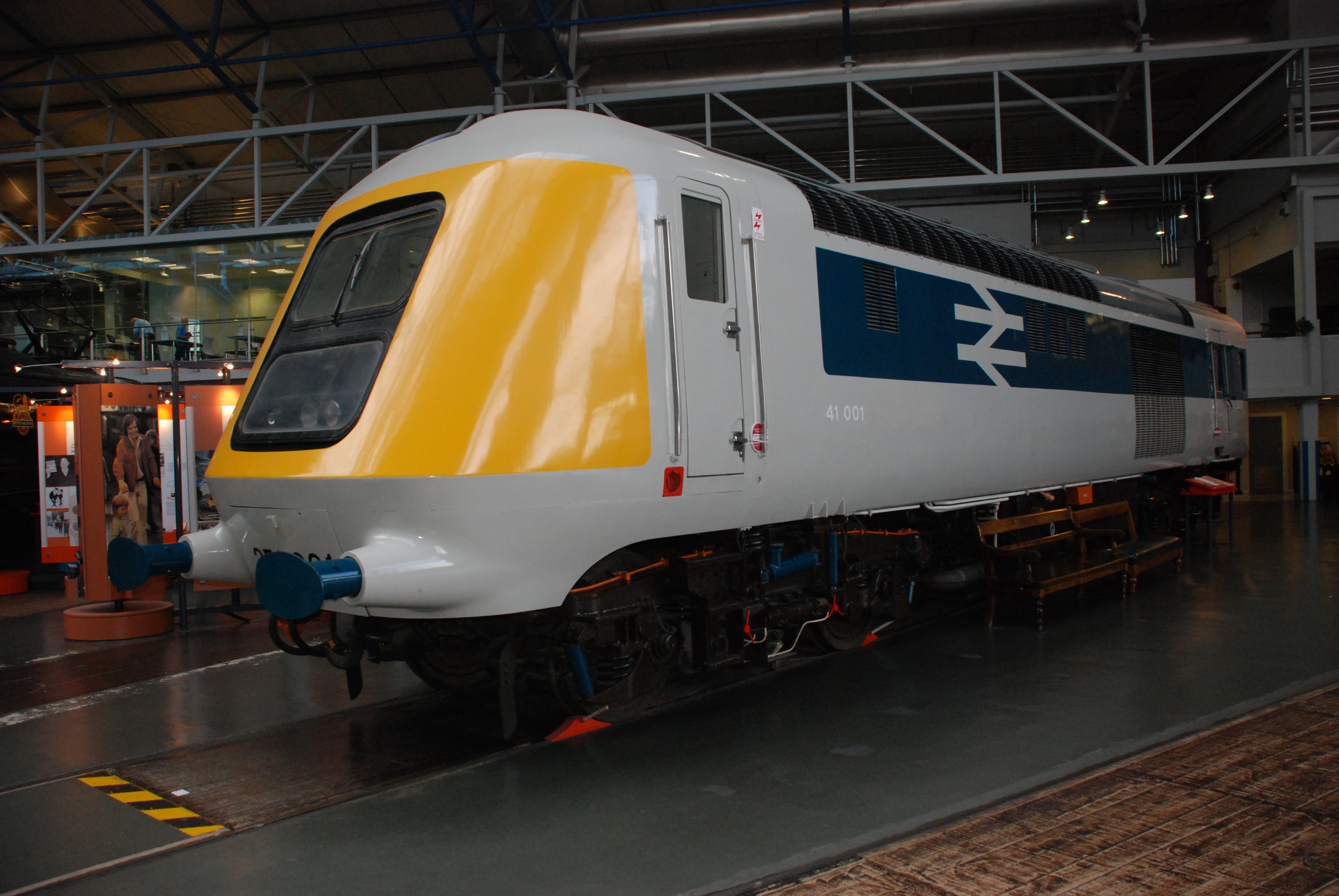 Prototype HST Power Car 41001 in the National Railway Museum, July 2009.